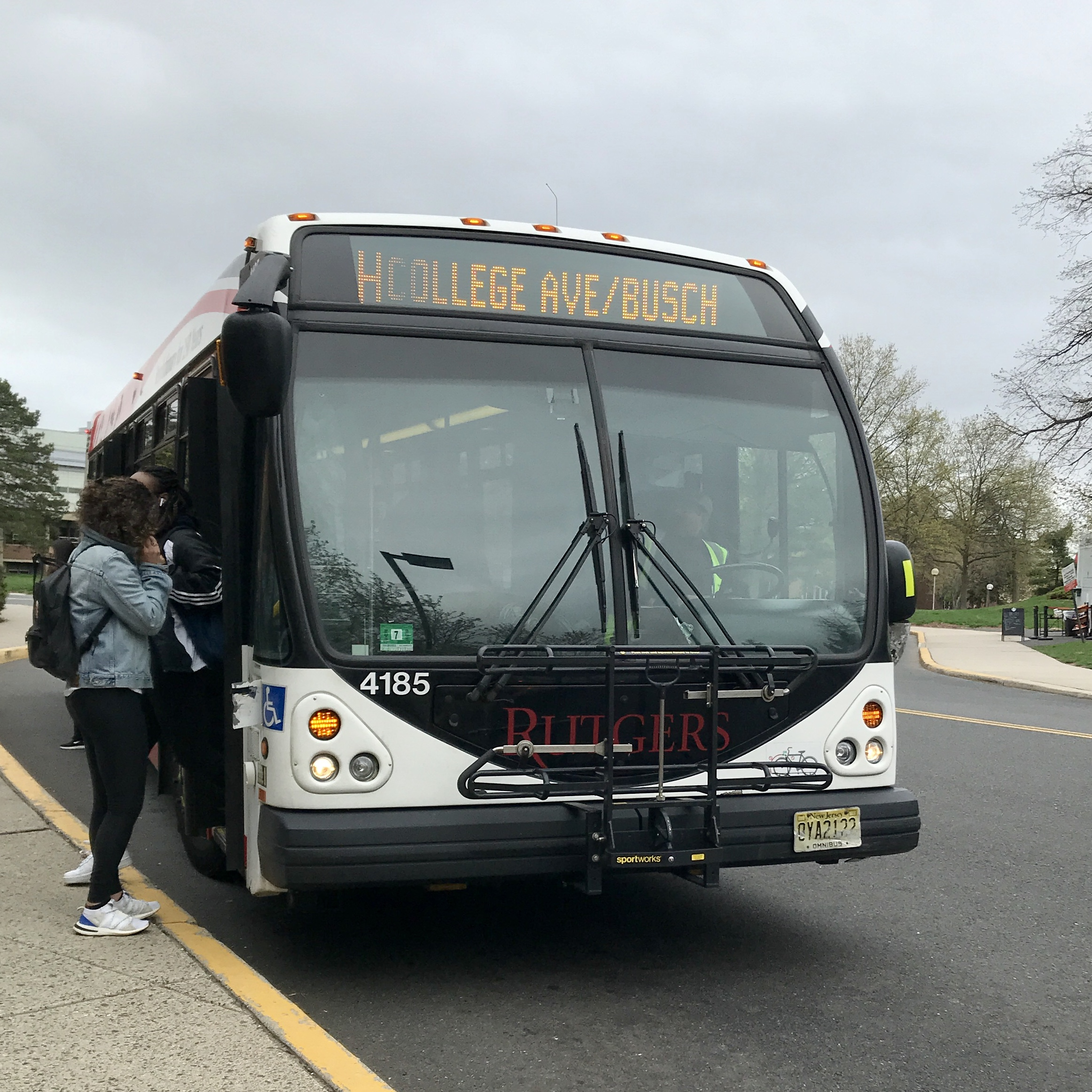 An H bus at the Allison Road Classroom Bus Stop